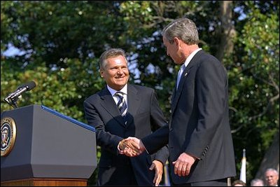 Aleksander Kwaśniewski: Approaching the podium, President Kwaśniewski greets President Bush. "We are grateful to America, you, Mr. President, and your predecessors, for good will and help we have been receiving in Poland for dozen of years — in all our efforts," said President Kwaśniewski, addressing the crowd in English. "Poland is steadfast ally of the United States. We take over the co-responsibility for European and global security. On the 11th of September, all of us felt New Yorkers."